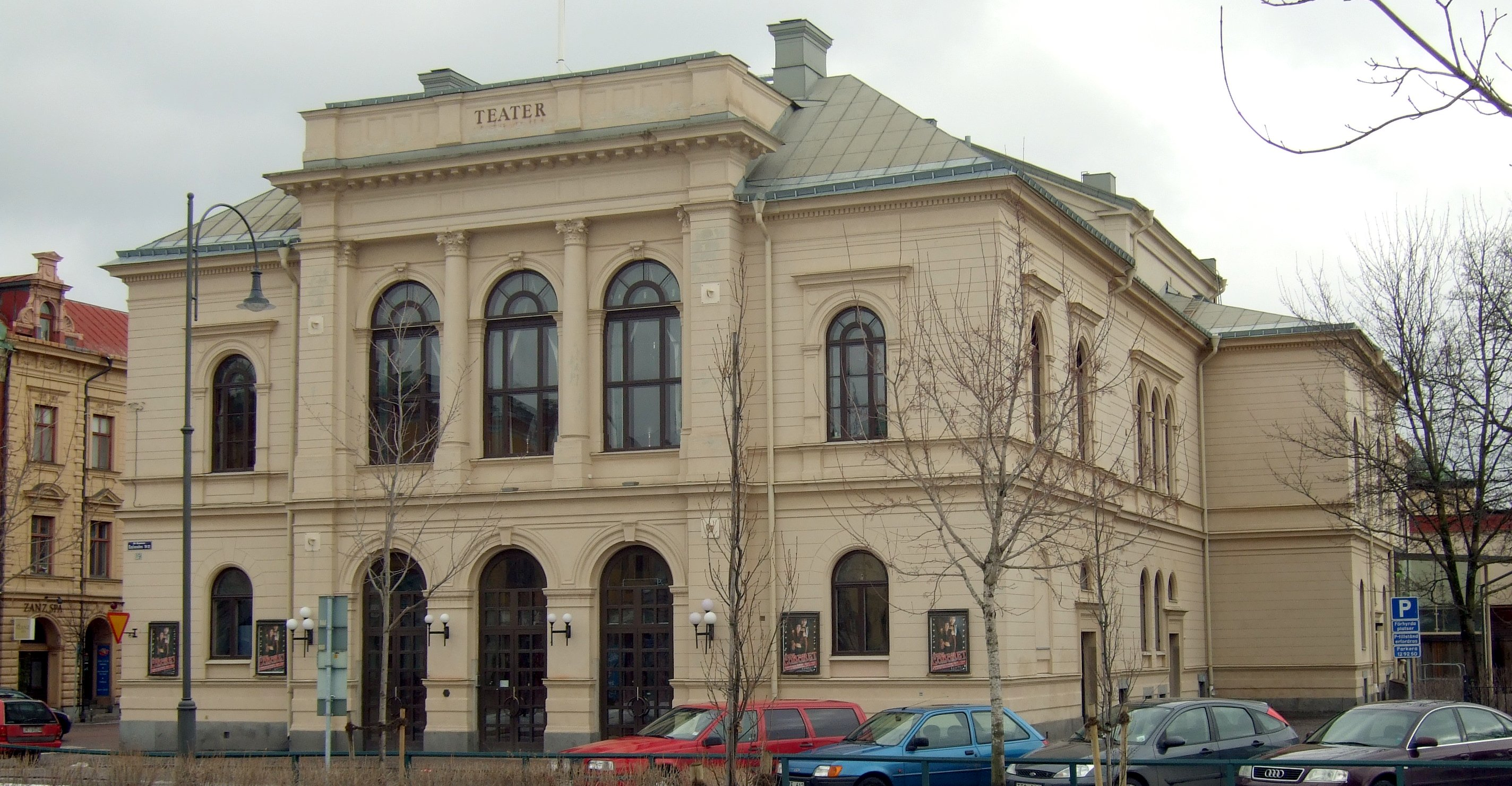 Sundsvalls Teater (Sundsvall Theatre), Sundsvall, Sweden. Visitor entrance at Esplanaden 19 viewed from west.